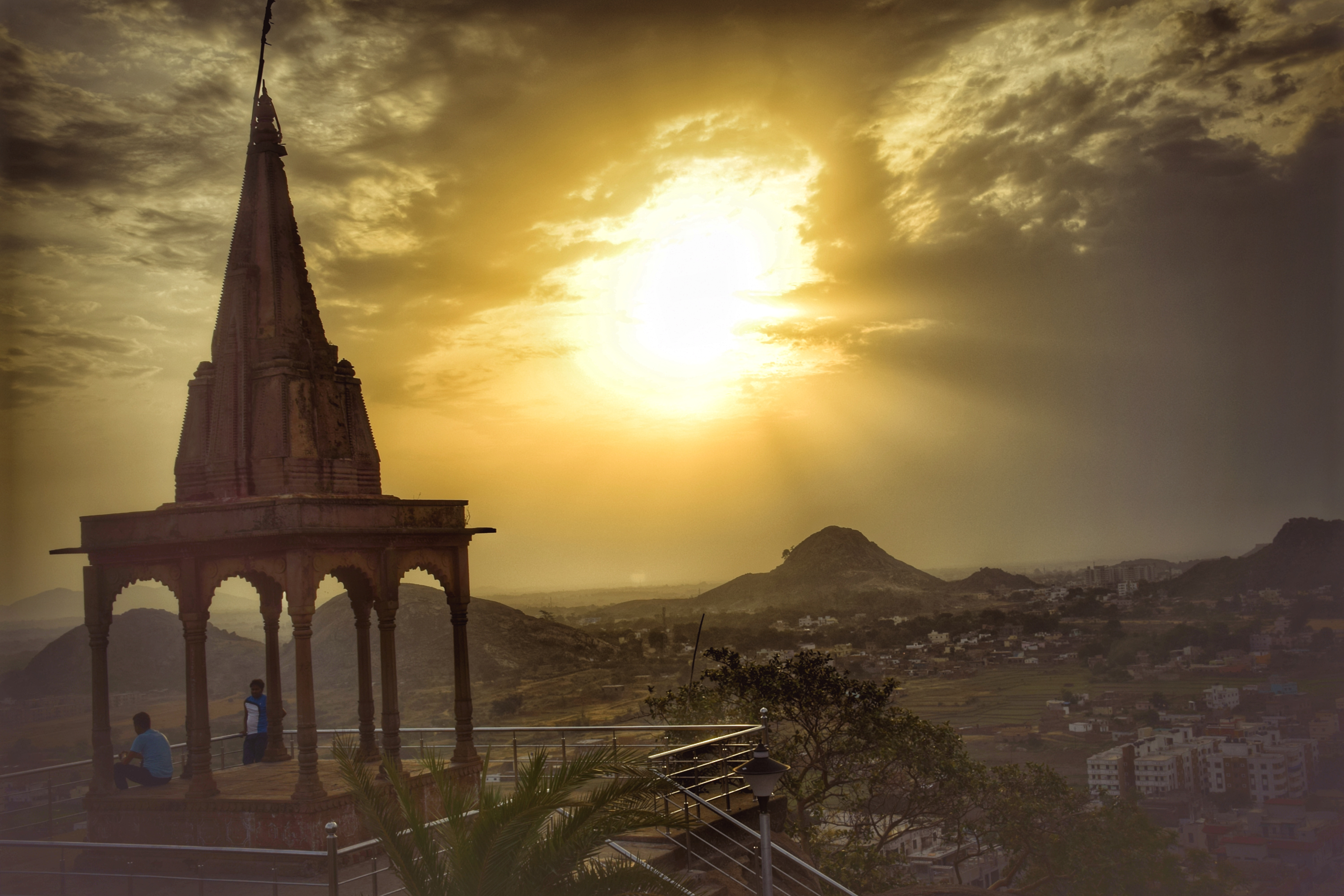 Pic taken during sunrise at Tagore hill situated in Ranchi